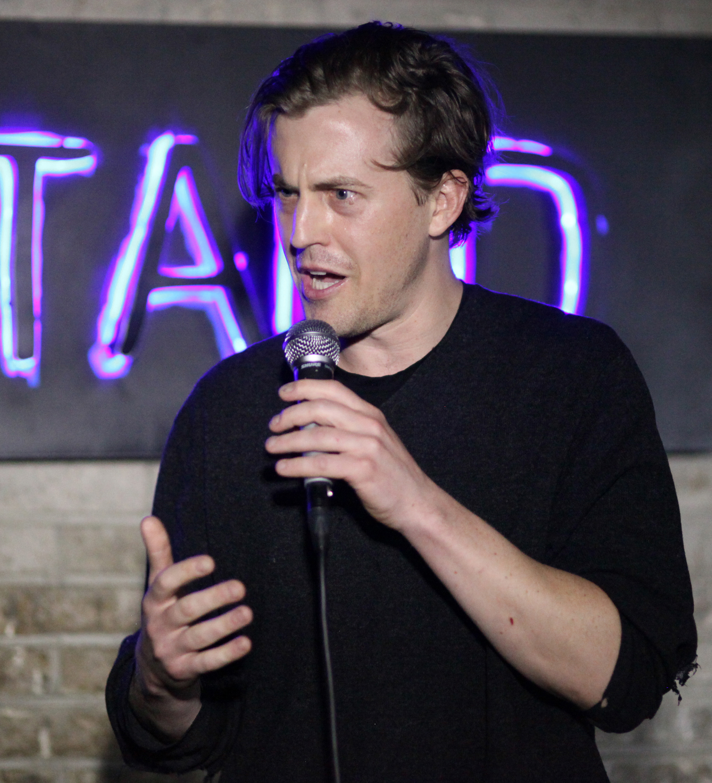 Moffat in April 2017.